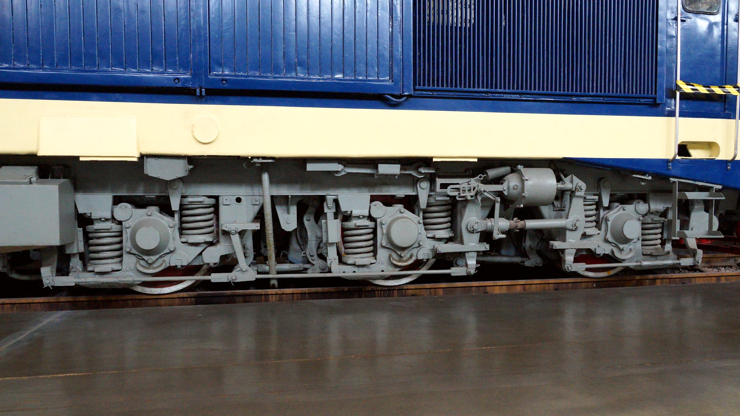 The bogie of China Railways ND4-15 diesel locomotive, displayed in China Railway Museum in Beijing